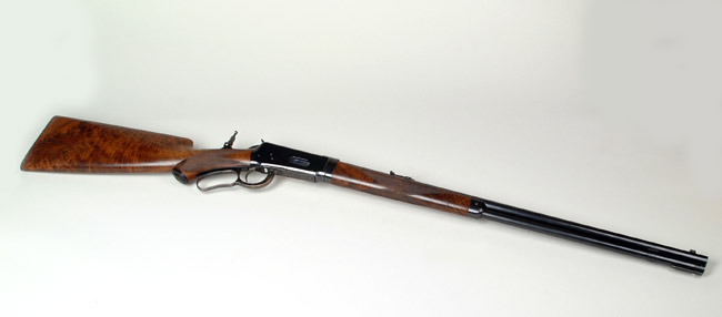 from... Original caption reads: "Centerfire Rifle "c 1894 "This 30-30 Winchester Model lever-action rifle belonged to Kohrs’ son-in-law, John Boardman. He managed Kohrs’ eastern Montana cattle operations in later years. "Steel, wood, plastic. L 117 cm "Grant-Kohrs Ranch National Historic Site, GRKO 474" This is almost certainly not a Winchester rifle--definitely not a model 1894; the Winchester lever action rifles seem to all have had straight-grip stocks until the 1920s, when the Model 53 was introduced. So far, the only lever action rifle with a pistol grip stock in .30-30 I can find is the Marlin 1893; "28-32 in. round or octagonal barrels, 10 shot tube mag, straight or pistol grip stock. Mfg. 1893-1936". My blue book doesn't explicitly state that the Winchester model 1892 had a straight grip stock, but all the pictures I've seen have one, and the only .30-ish caliber it was available in was .32-20, a much smaller round. The .30-30 is actually pretty uncommon in the early Winchester lever actions, appearing only in the 1894 variants until the Model 55 came out in 1924. scot 14:10, 6 June 2006 (UTC):Information on Marlin and Winchester lever action rifles is taken from the Blue Book of Gun Values, S. P. Fjestad, 13th Edition. Current edition available from Blue Book Publications, Inc. scot 15:19, 6 June 2006 (UTC)